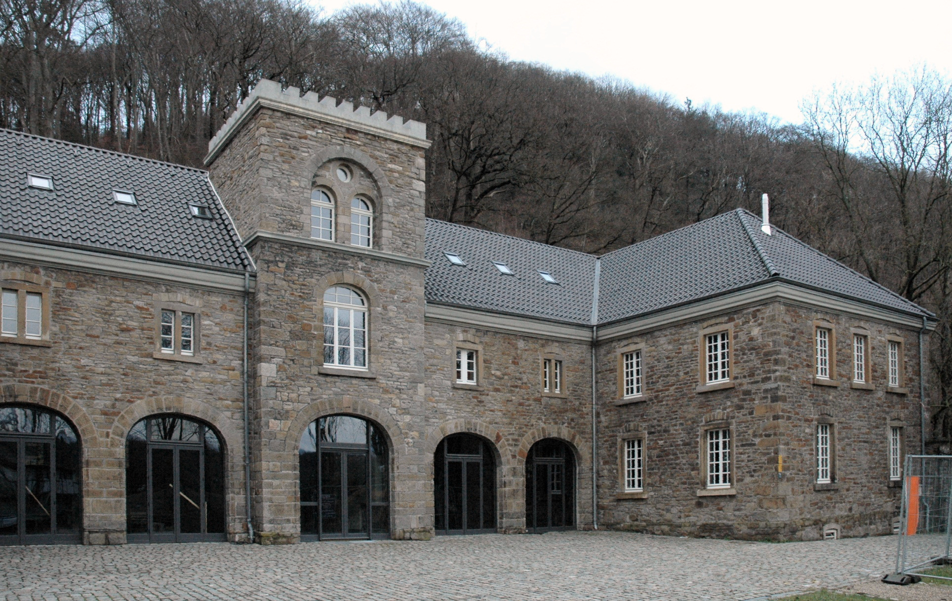 Baldeney Castle, outbuilding